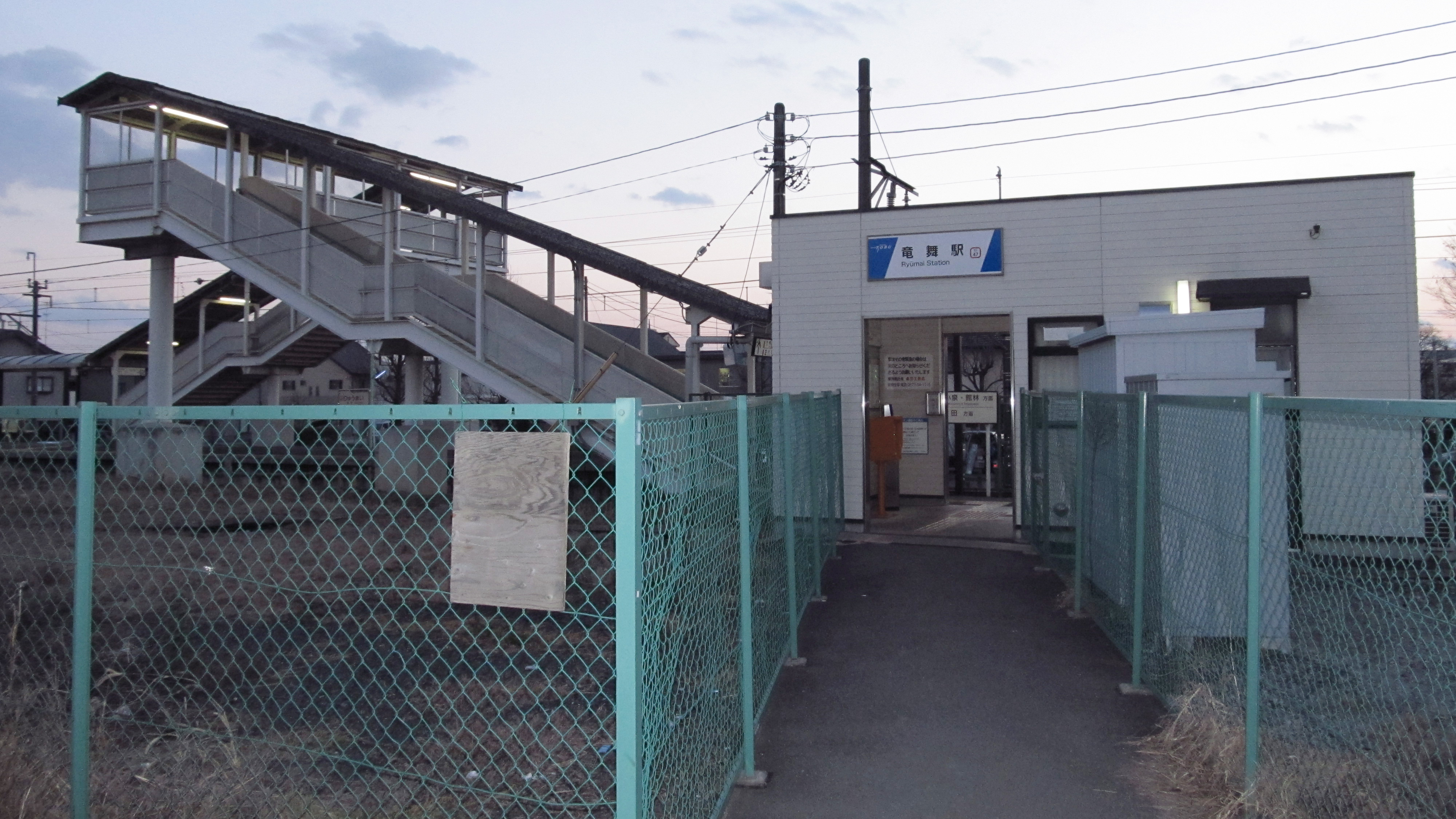 The entrance to Ryūmai Station on the Tobu Railway Koizumi Line in Ōta city, Gumma prefecture, Japan